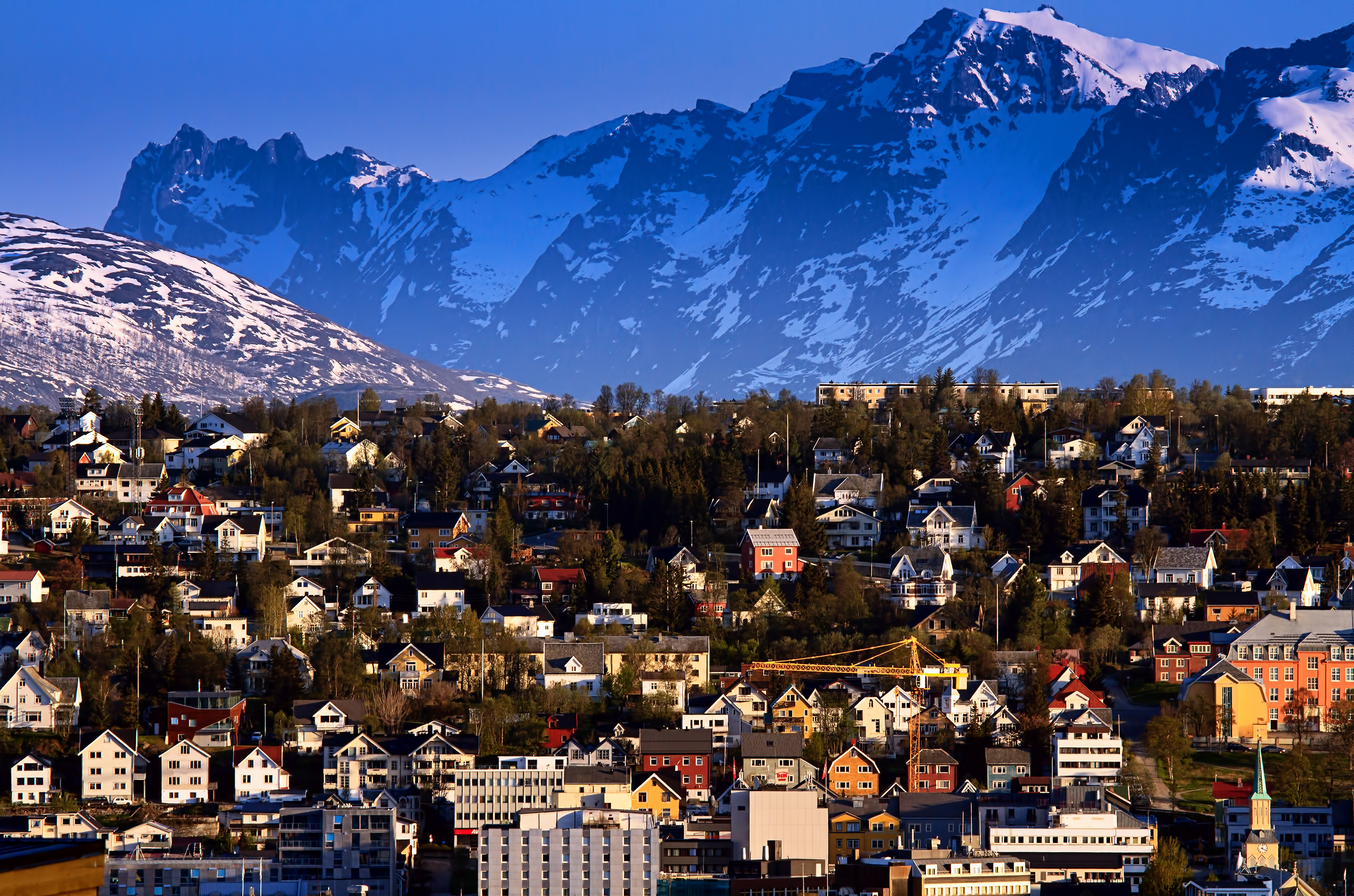 Summer night in Tromso. This image may be downloaded for commercial and non-commercial use. Please credit the photographer. --- Bildet kan fritt lastes ned. Vennligst krediter fotograf. Foto / Photo Credit: Mark Ledingham